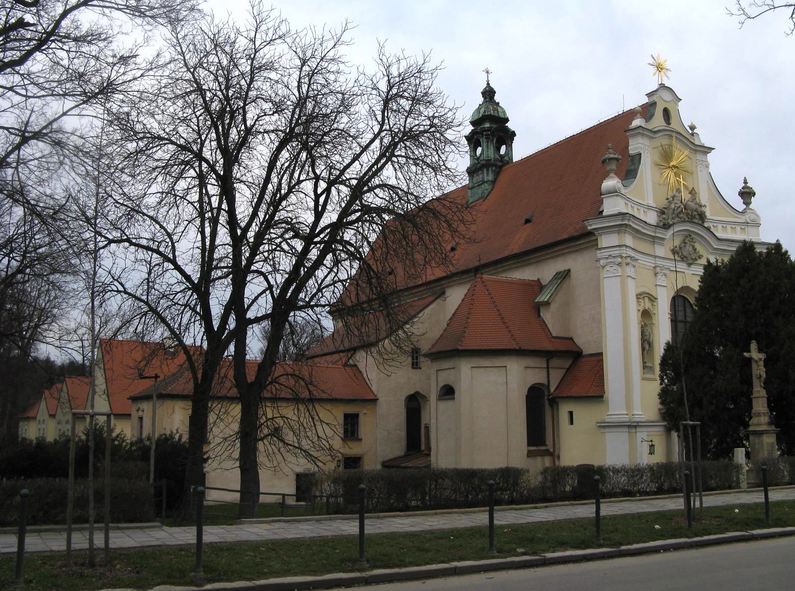 Church of the Holy Trinity with a part of former Charterhouse, Brno, Královo Pole